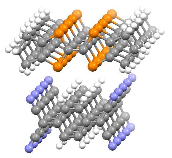 End-on view of portion of crystal structure of (trimethylene)2TTF+TCNQ- CT salt